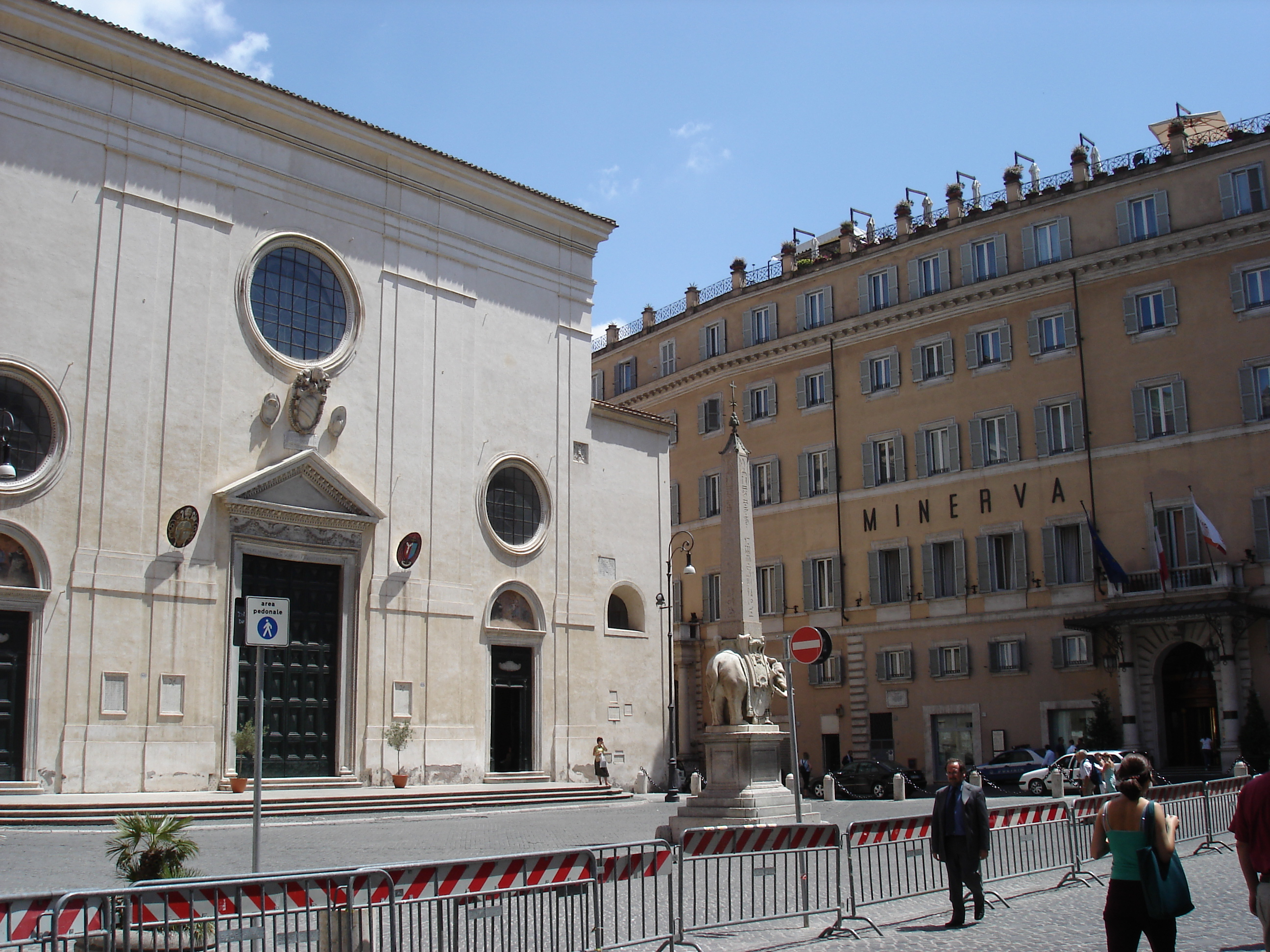 Rome in July.